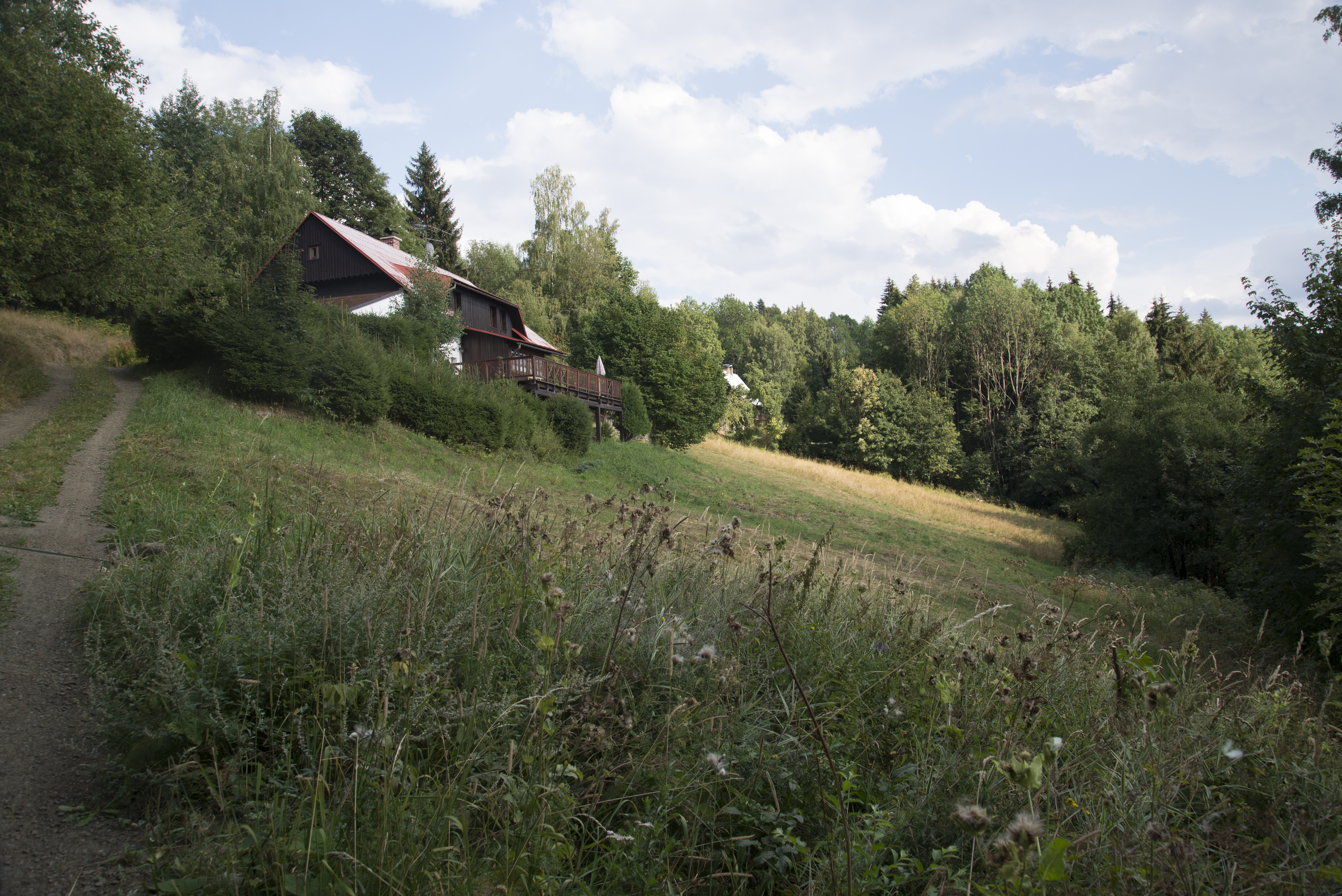 Hranice - village, part of the city Rokytnice nad Jizerou, Semily district, Liberec region, Czechia